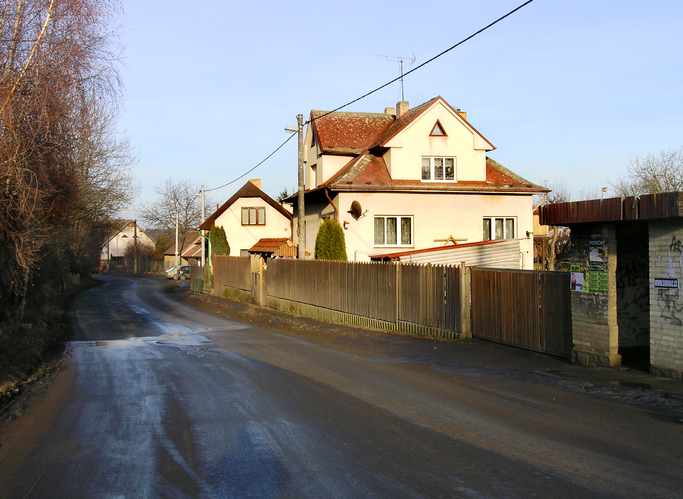 Srbín, local part of Mukařov, Czech Republic